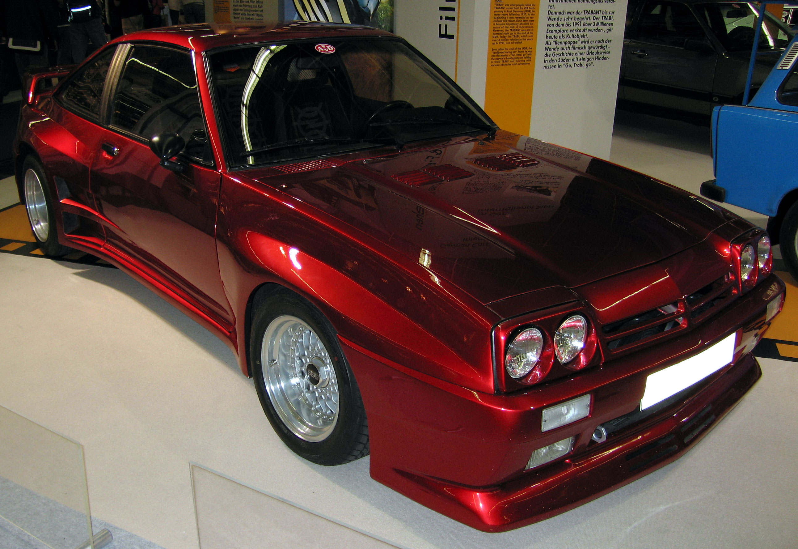 Opel Manta B GT/E at the IAA 2007